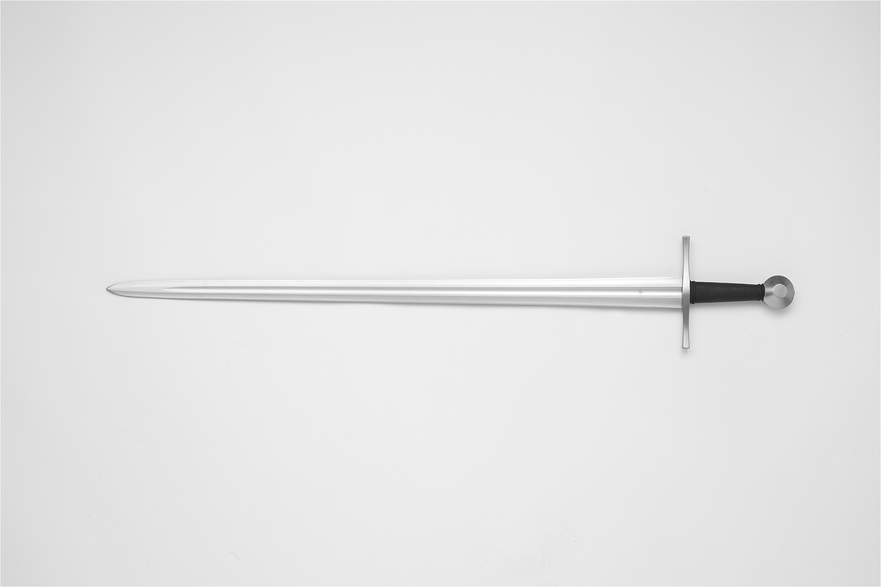 The Oakeshott Limited Edition Medieval Sword